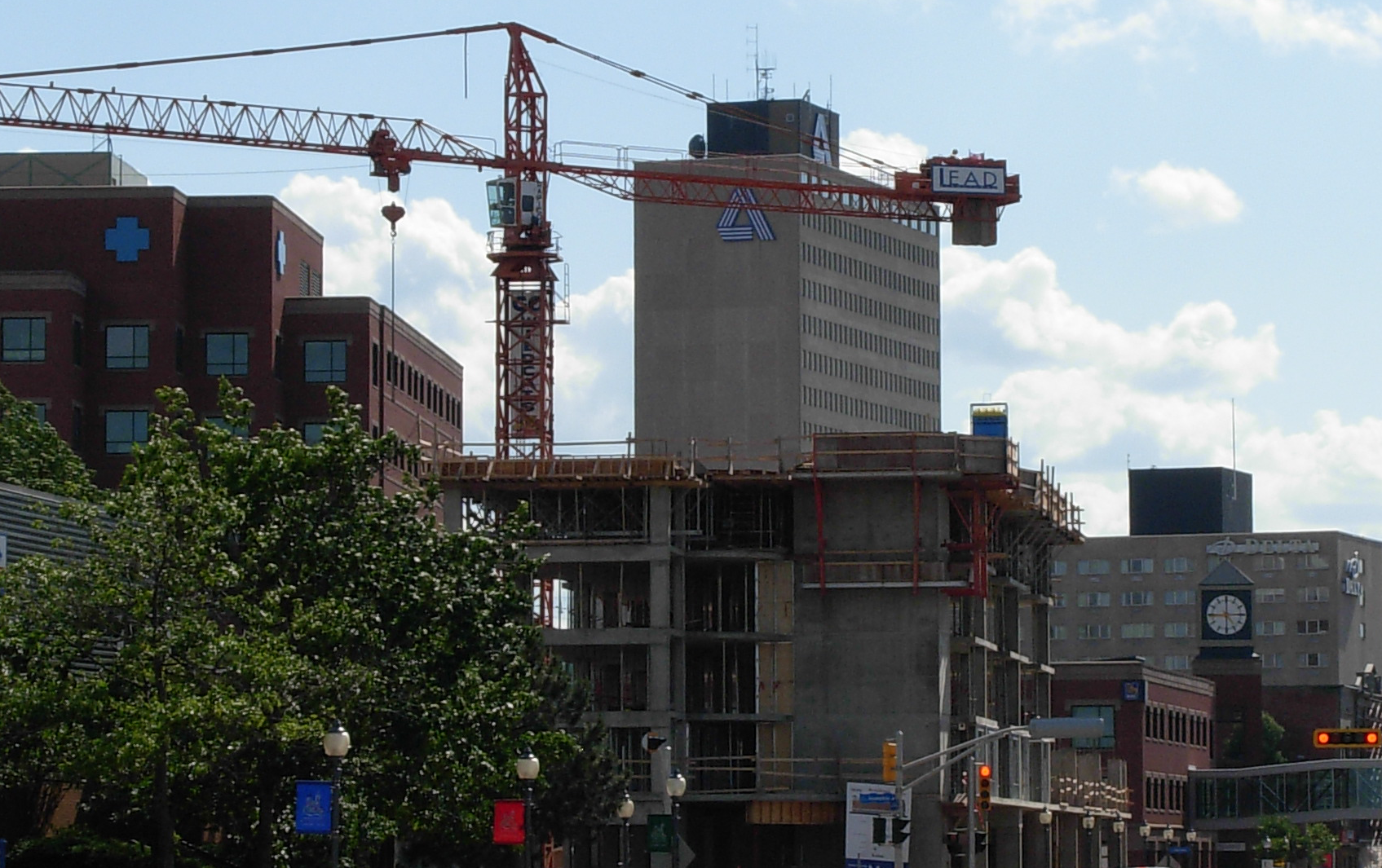 Downtown Moncton New Brunswick.